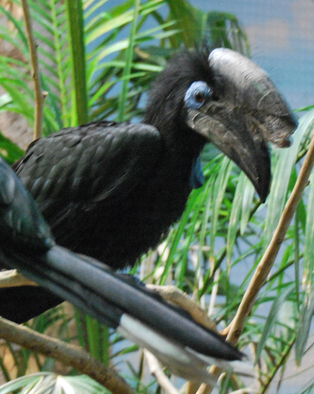 A male Black-casqued Hornbill at Cincinnati Zoo, USA.